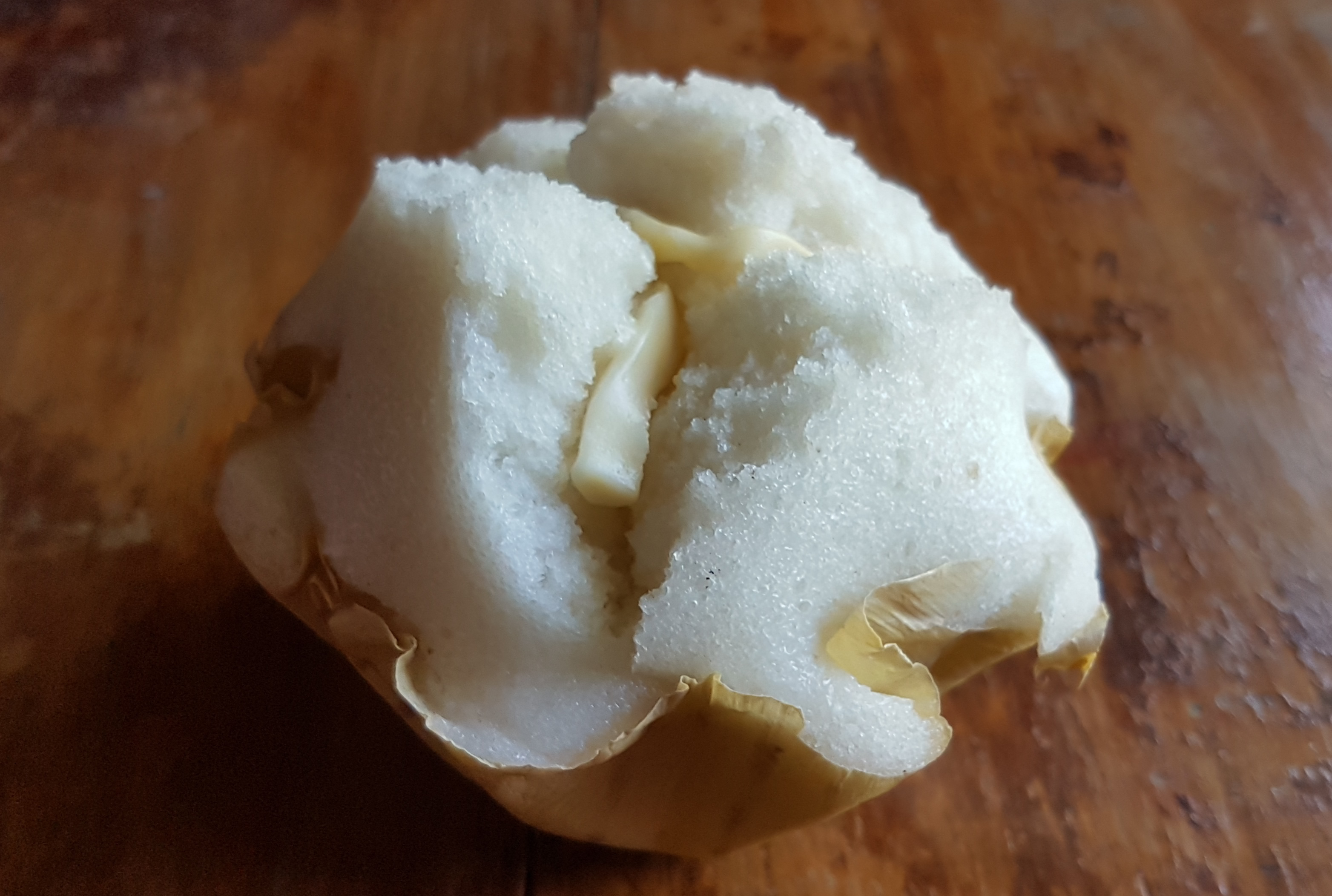 Puto (Filipino rice cake) with cheese from Mindanao